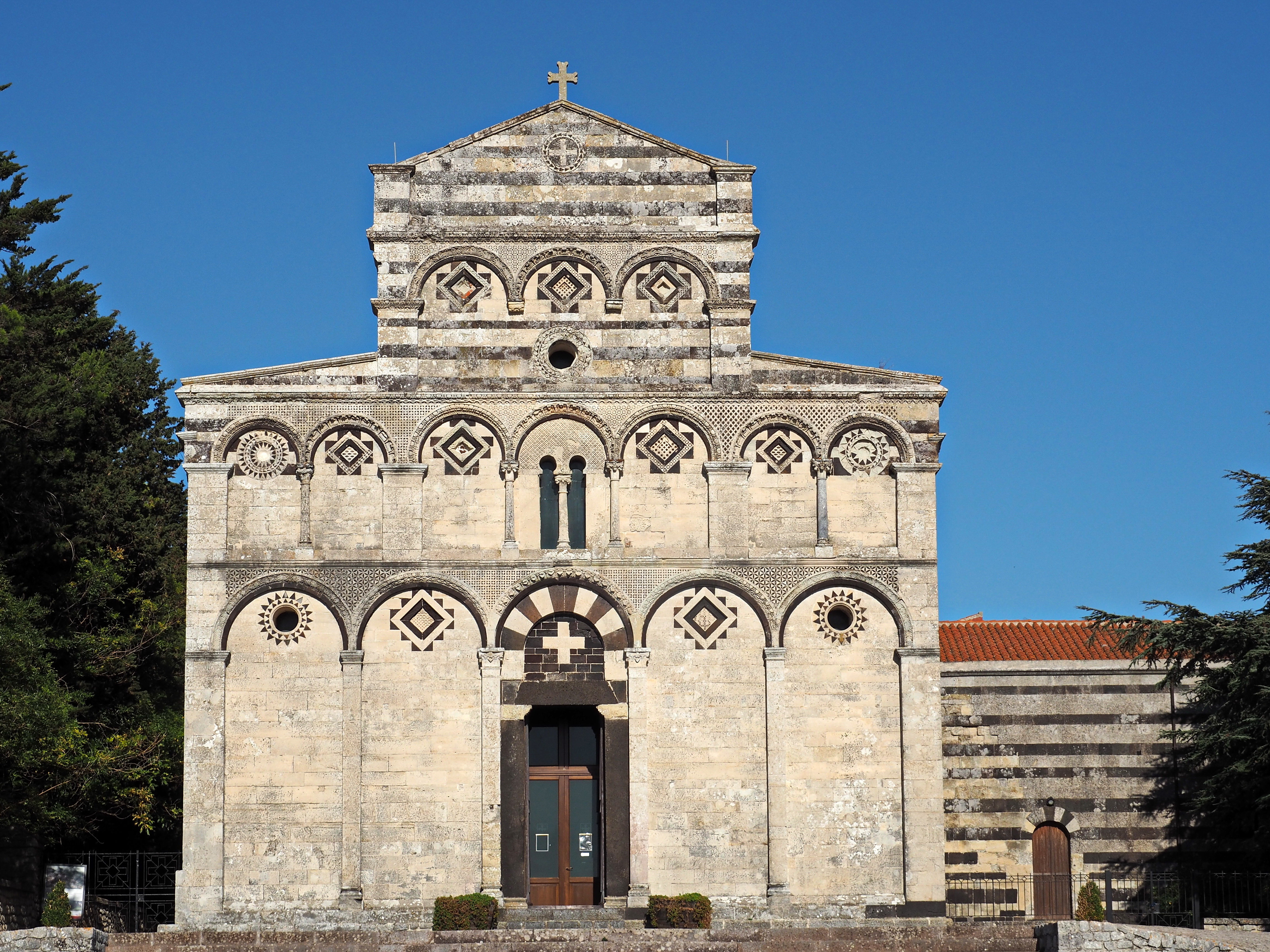 San Pietro Sorres (Sardinia); Facade